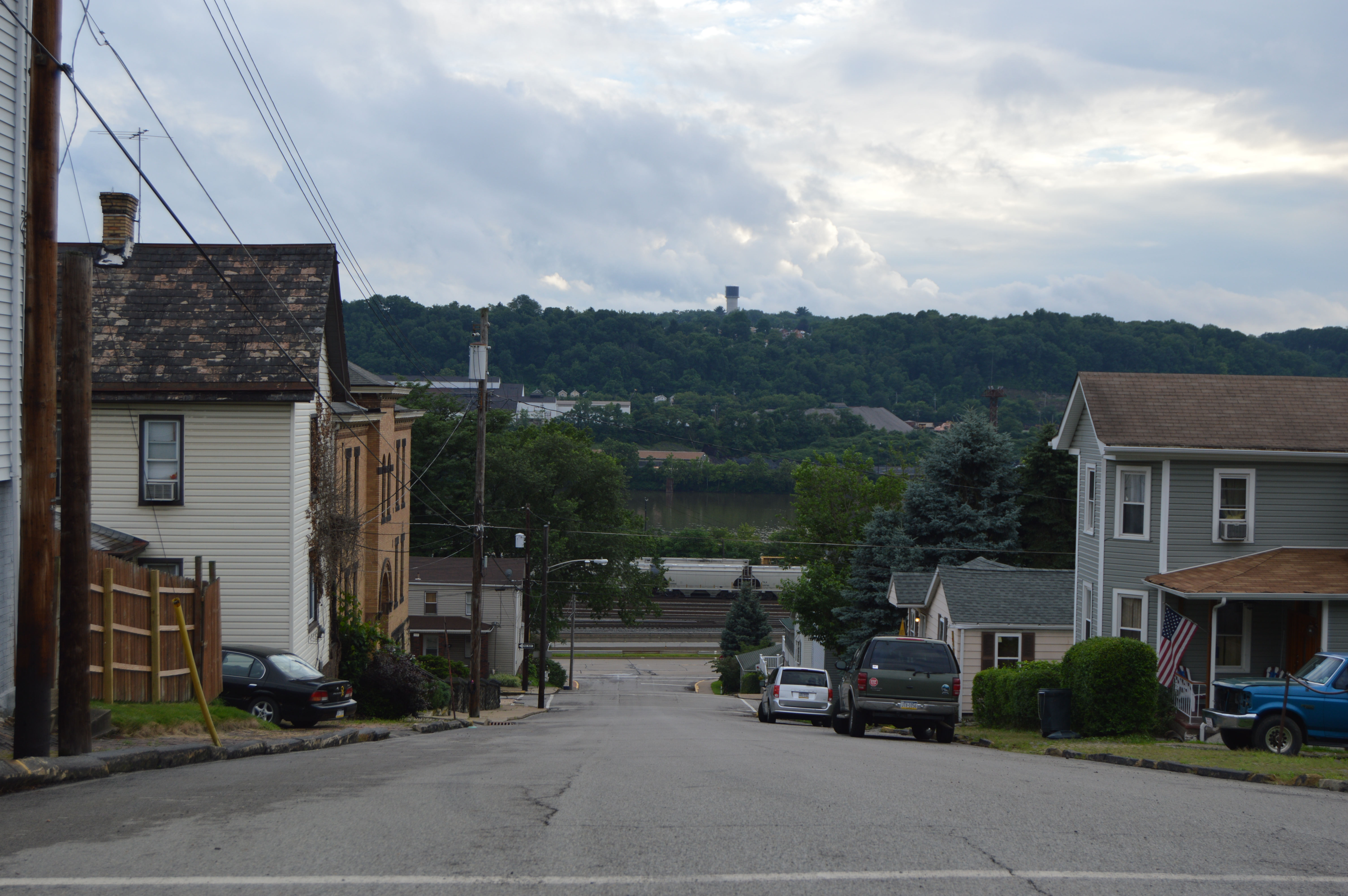 A typical street scene in Freedom, Pennsylvania, United States: vernacular houses line a street that climbs a steep hillside out of the Ohio River floodplain, with the Conway Yard visible on the near side of the river and the Monaca industrial park on the far side. Photo looks west-southwest on Tenth Street from the Sixth Avenue intersection; the old Freedom Public School is visible at left.